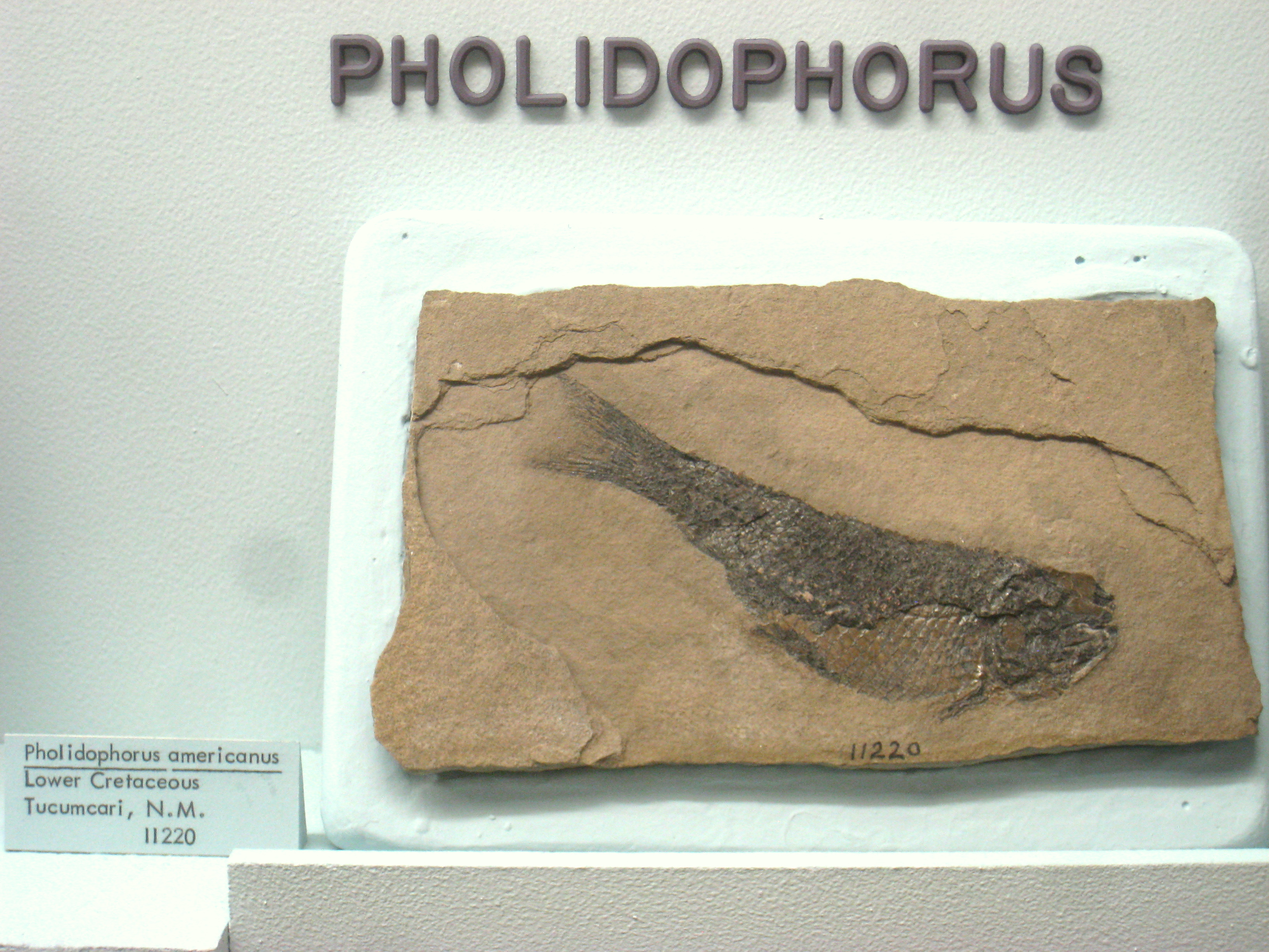 Pholidophorus americanus. Exhibit Museum of Natural History, University of Michigan, 1109 Geddes Avenue, Ann Arbor, Michigan, USA.